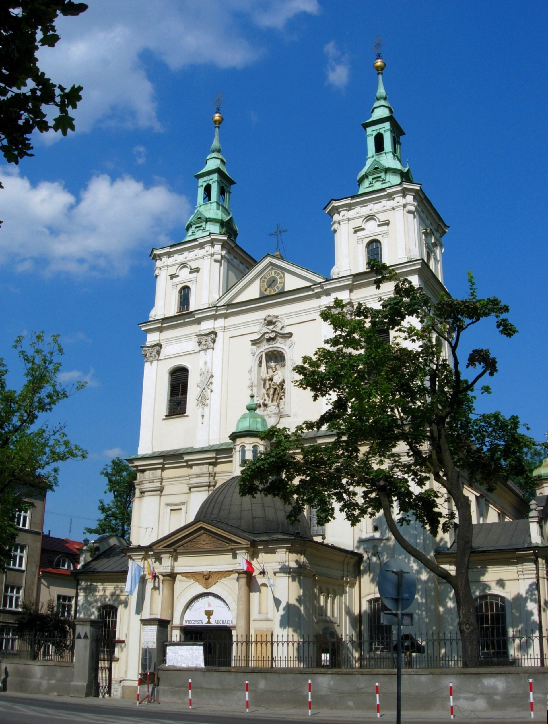 Saint Florian church in Kraków